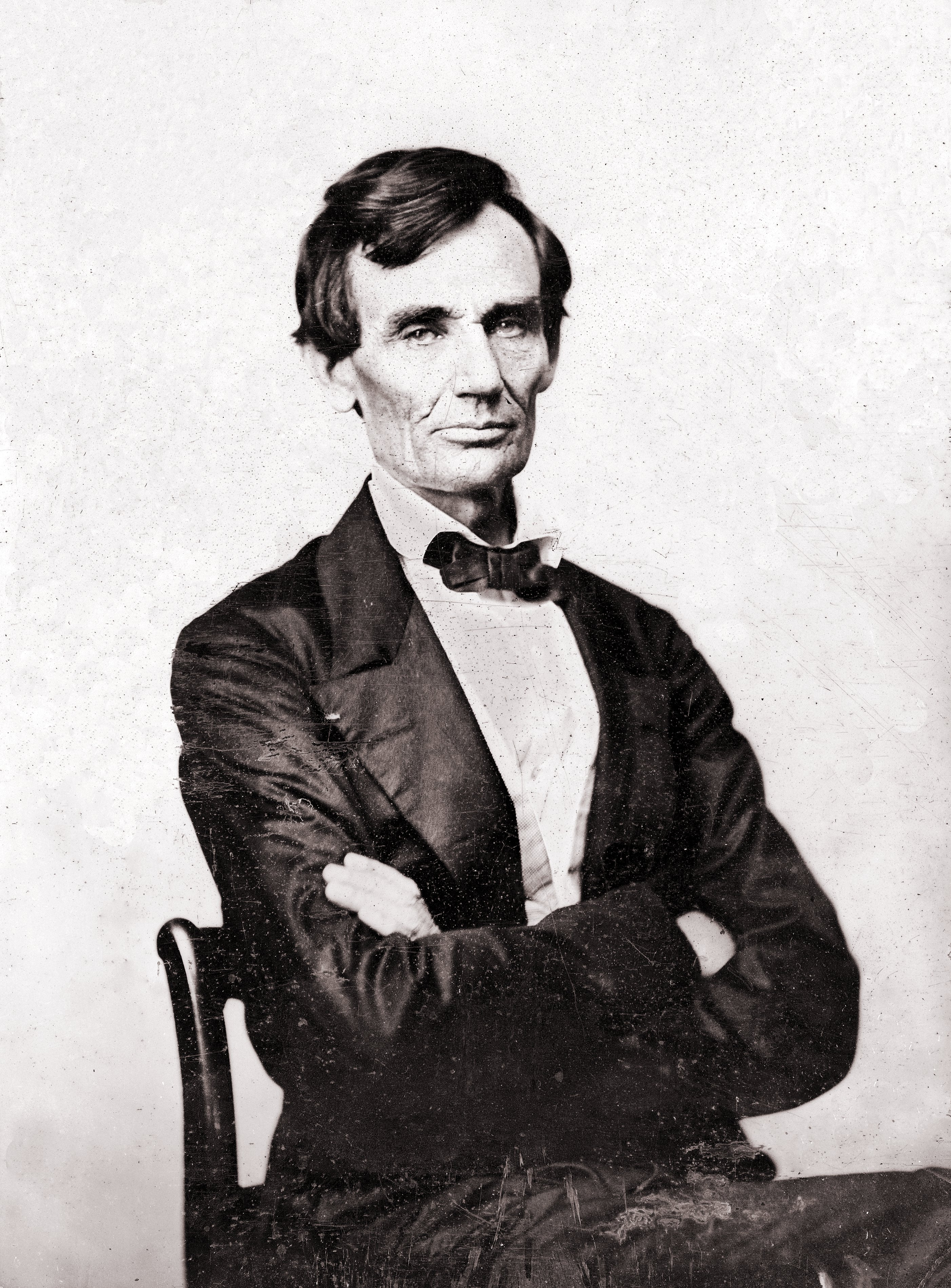 Abraham Lincoln, candidate for U.S. president. Half-length portrait, seated, facing front 1 photograph : ambrotype ; plate 5 3/4 x 4 1/2 in. Thought to be the last beardless portrait of Lincoln, this photo was "made for the portrait painter, John Henry Brown, noted for his miniatures in ivory. ... 'There are so many hard lines in his face,' wrote Brown in his diary, 'that it becomes a mask to the inner man. His true character only shines out when in an animated conversation, or when telling an amusing tale. ... He is said to be a homely man; I do not think so.'" (Source: Ostendorf, p. 62) Published in: Lincoln's photographs: a complete album / by Lloyd Ostendorf. Dayton, OH: Rockywood Press, 1998, p. 62-63. Title devised by Library staff. Gift; A. Conger Goodyear; 1965. Format: Portrait photographs--1860. Ambrotypes--1860.